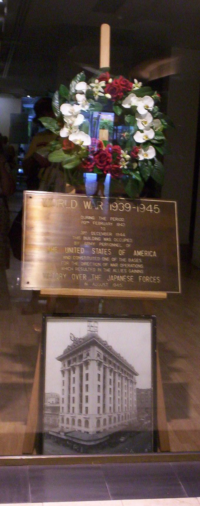 Wreath and plaque at the T & G Building